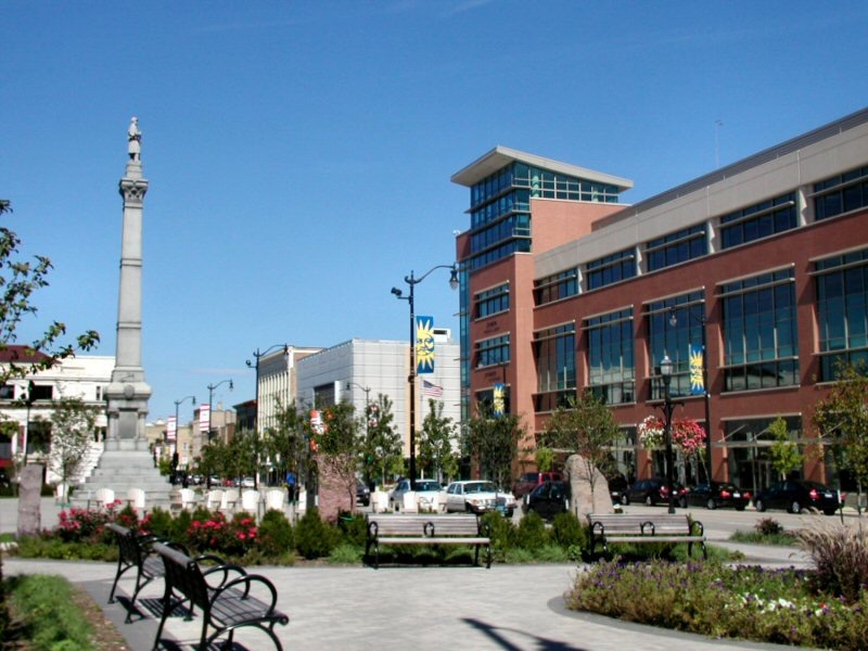 Monument Square overlooking the Johnson's Financial Building and the Racine Art Museum